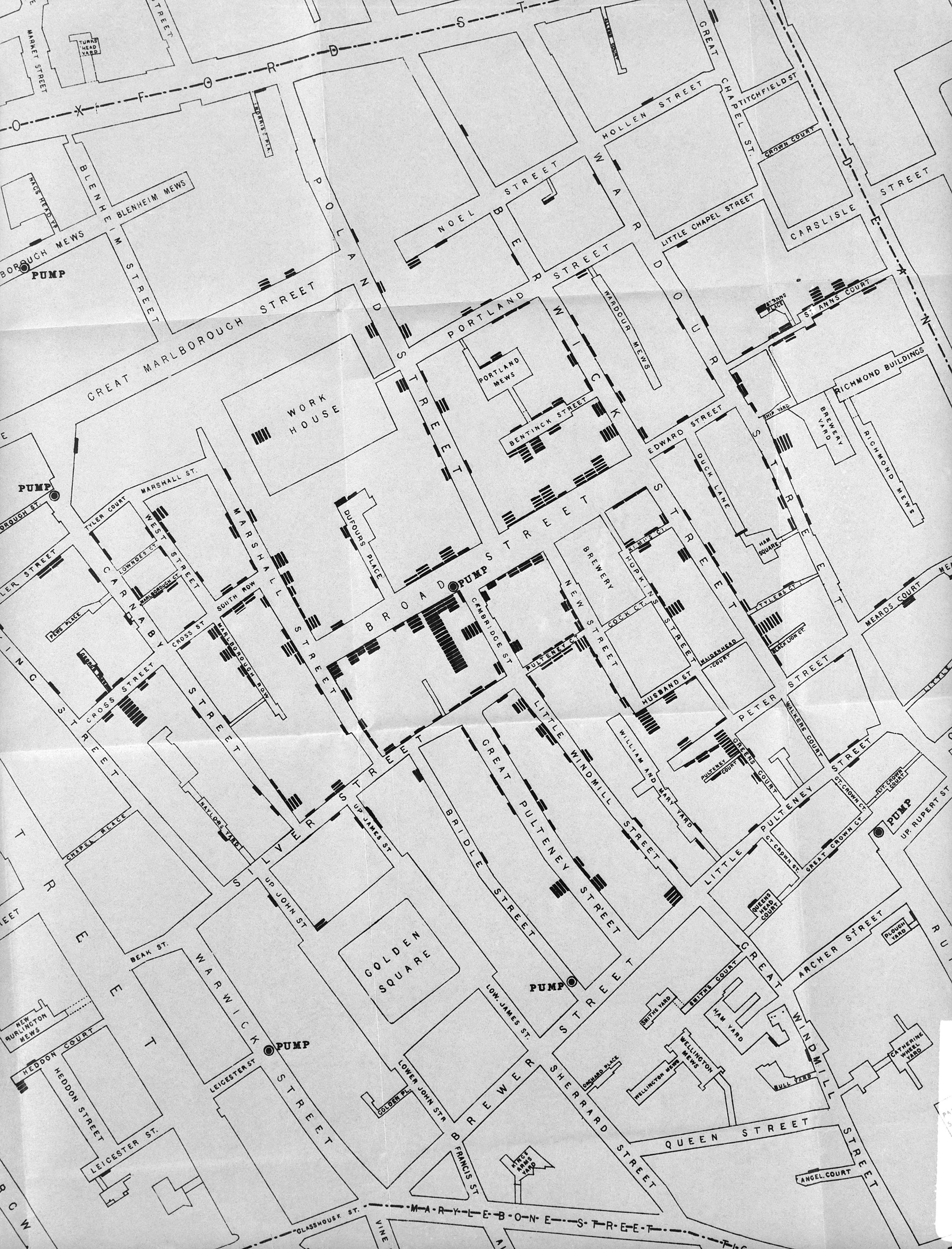 Street Map of Soho, around Golden Square, illustrating incidences of cholera deaths during the period of the Cholera Epidemic, 1853. General Collections Keywords: Topography; Maps; London; Cholera; John Snow